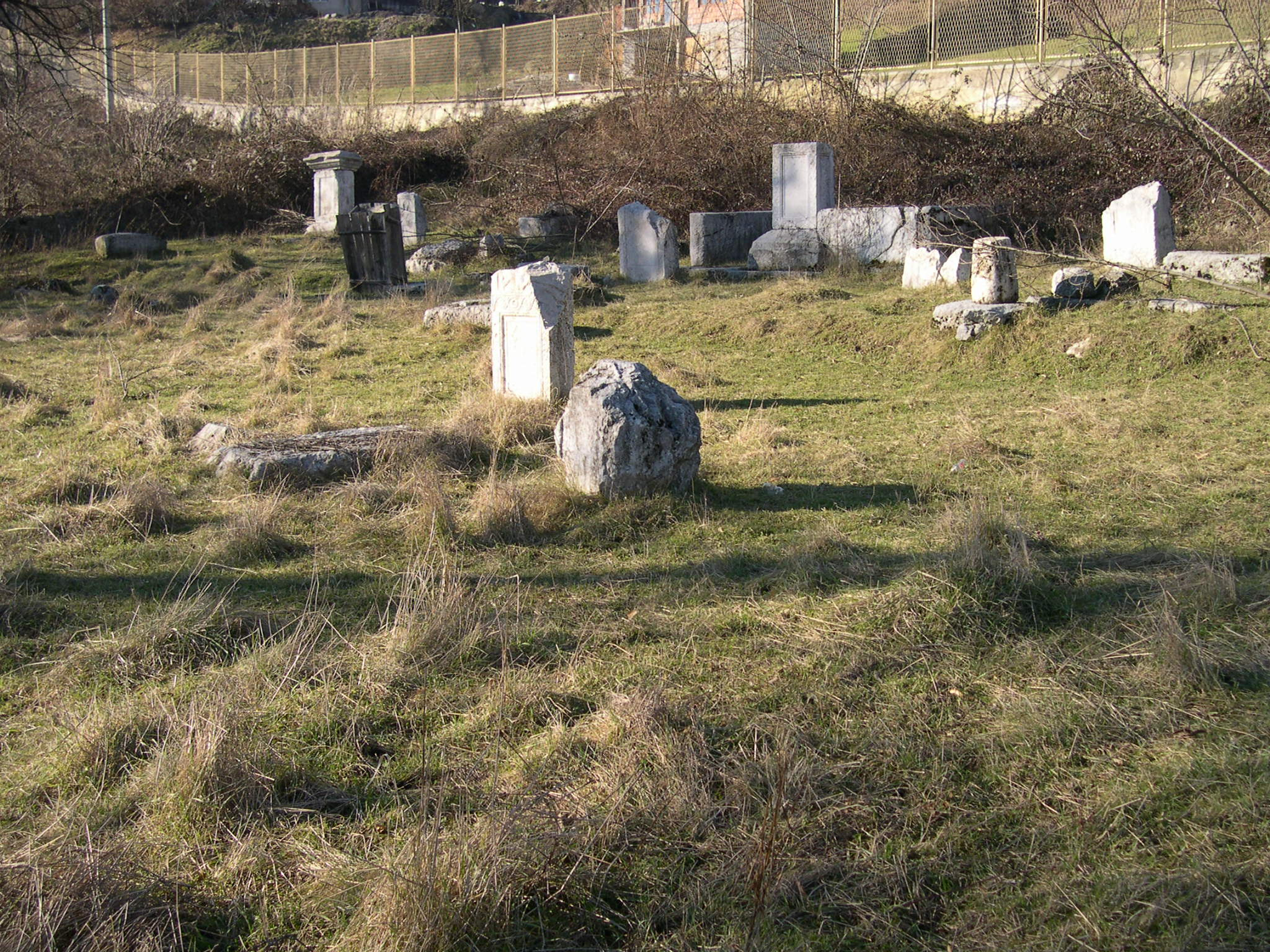 Archeological site Roman necropolis in Prijepolje